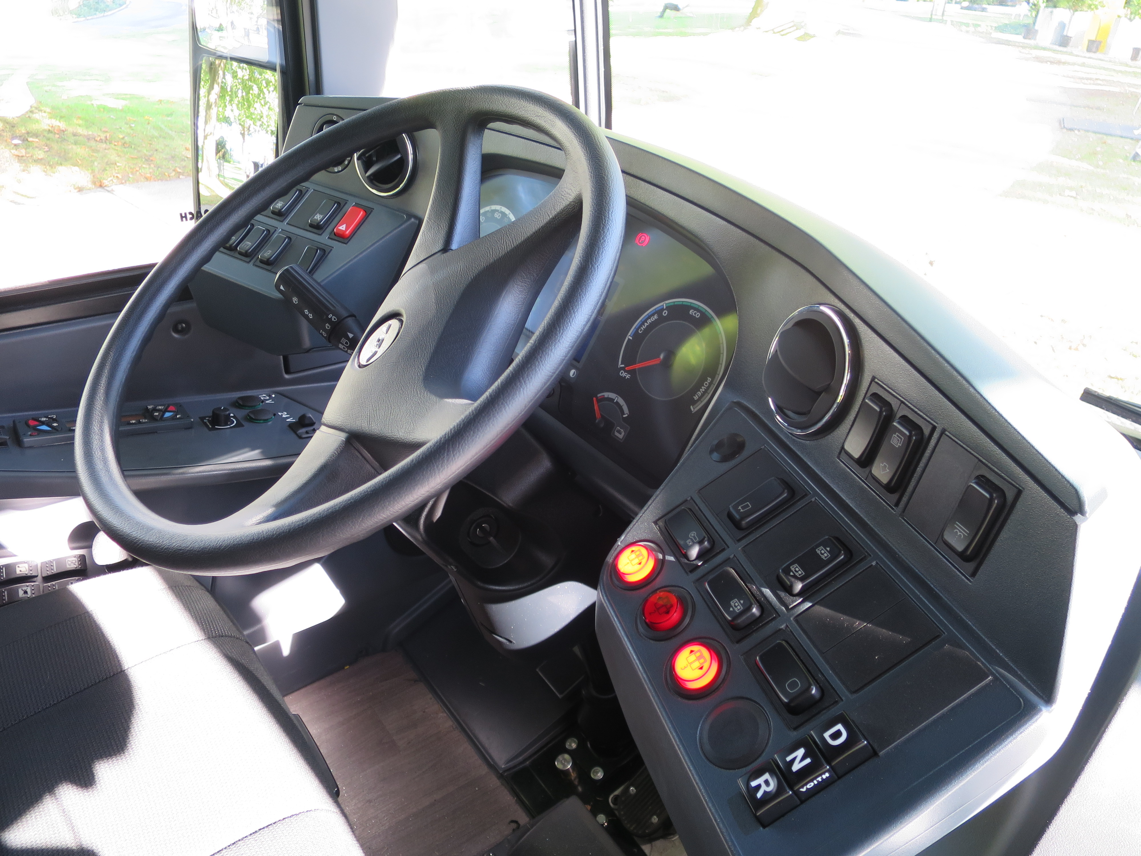 InnoTrans 2016 The making of this document was supported by Wikimedia Polska Association, within Wikigrant no. WG 2016-35.